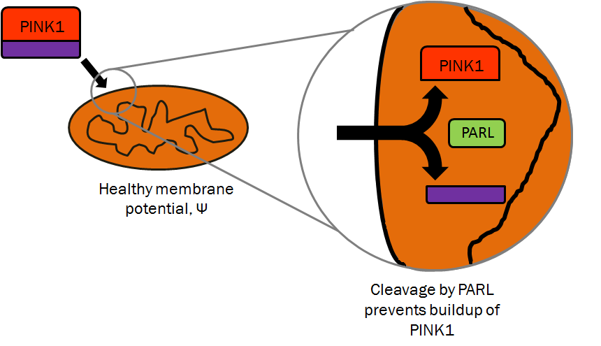 Cleavage of PINK1 by PARL in healthy mitochondria